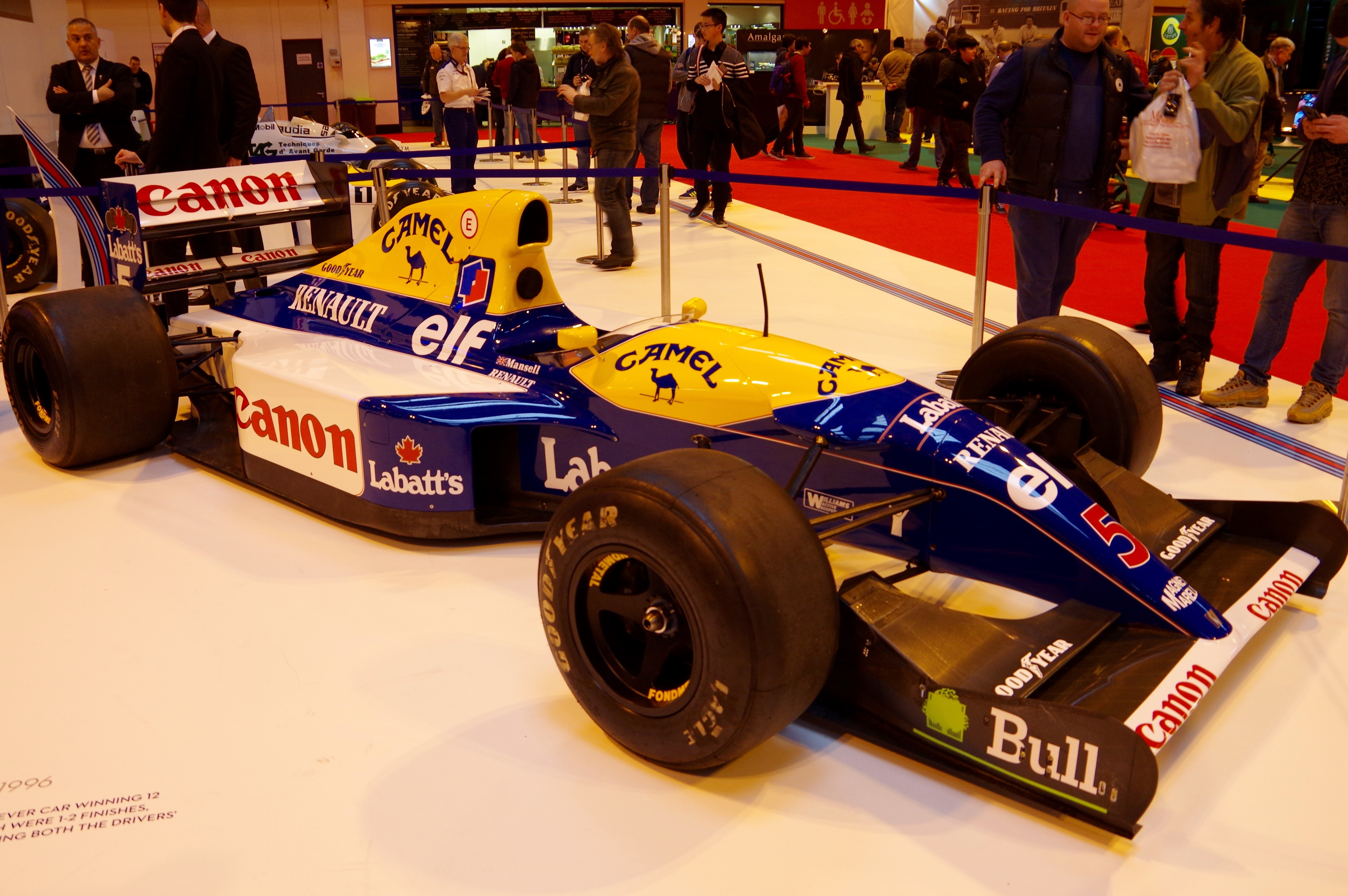 Winner of 9 out of 16 Races. Therefore Winning the Drivers' Championship and the Constructors' Title Autosport International Racing Car Show